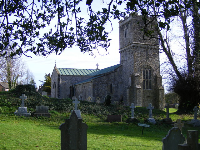 The Church of St John the Evangelist, Tolpuddle The parish church dates in part from the 12th century. The tower, which has four bells, dates from the 13th century. In this graveyard you can find the grave of James Hammett, the only one of the six Tolpuddle Martyrs to end his days in this village.